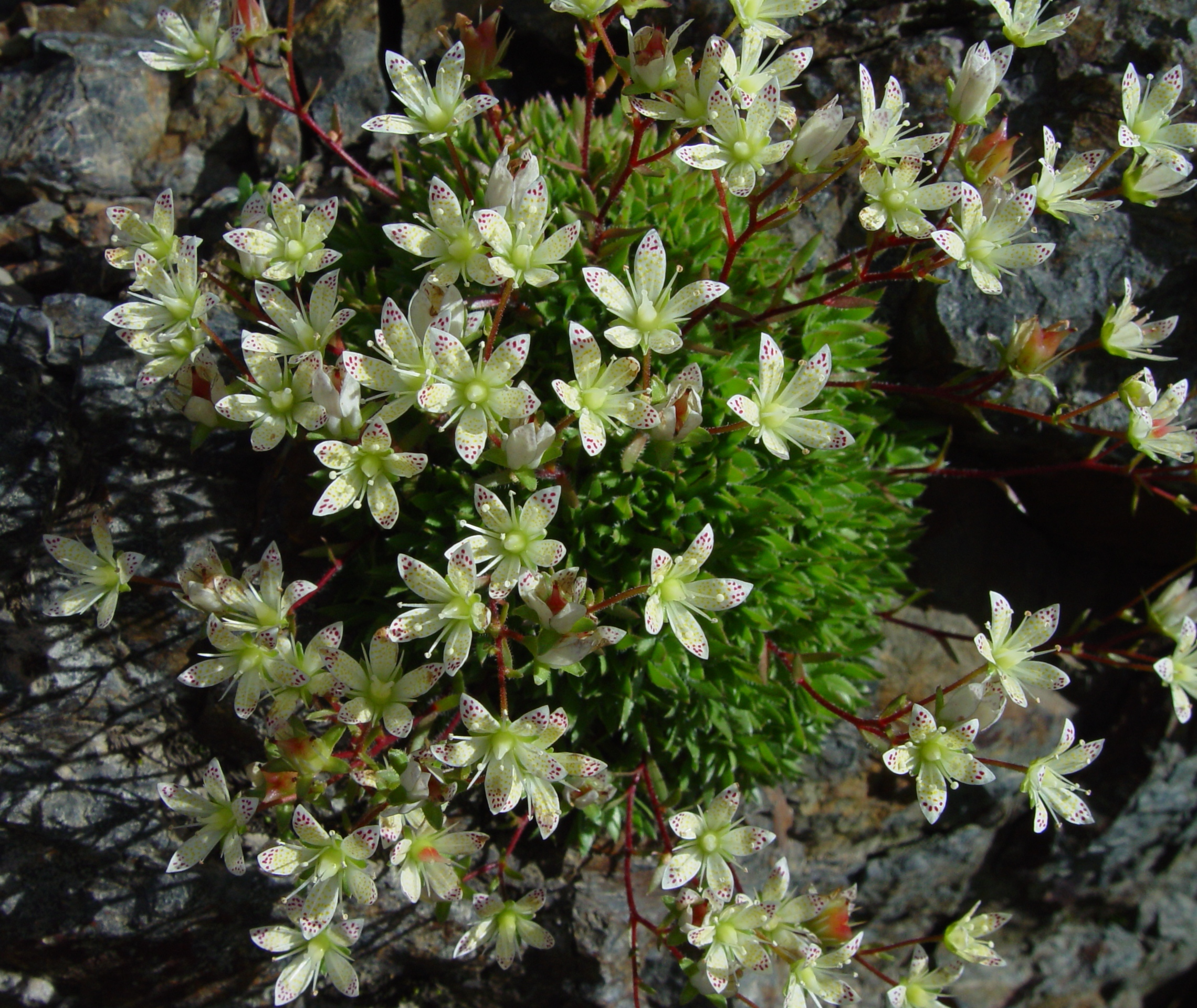 Saxifraga bronchialis L. subsp. funstonii (Small) Hultén var. rebunshirensis (Engl. et Irmsch.) H.Hara in Mount Hijiri, Japan.